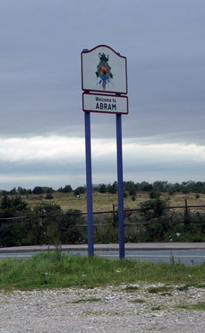 The welcome sign to Abram, in Greater Manchester, England.